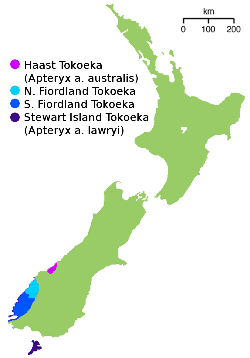 Apteryx australis Map showing distribution of Southern Brown Kiwi. Haast Tokoeka Apteryx australis australis (Fuchsia) Northern Fiordland Tokoeka Apteryx australis ? (Light blue) Southern Fiordland Tokoeka Apteryx australis ? (Blue) Stewart Island Tokoeka Apteryx australis ? (Purple)